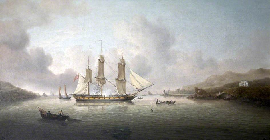 (c) Britannia Royal Naval College; Supplied by The Public Catalogue Foundation